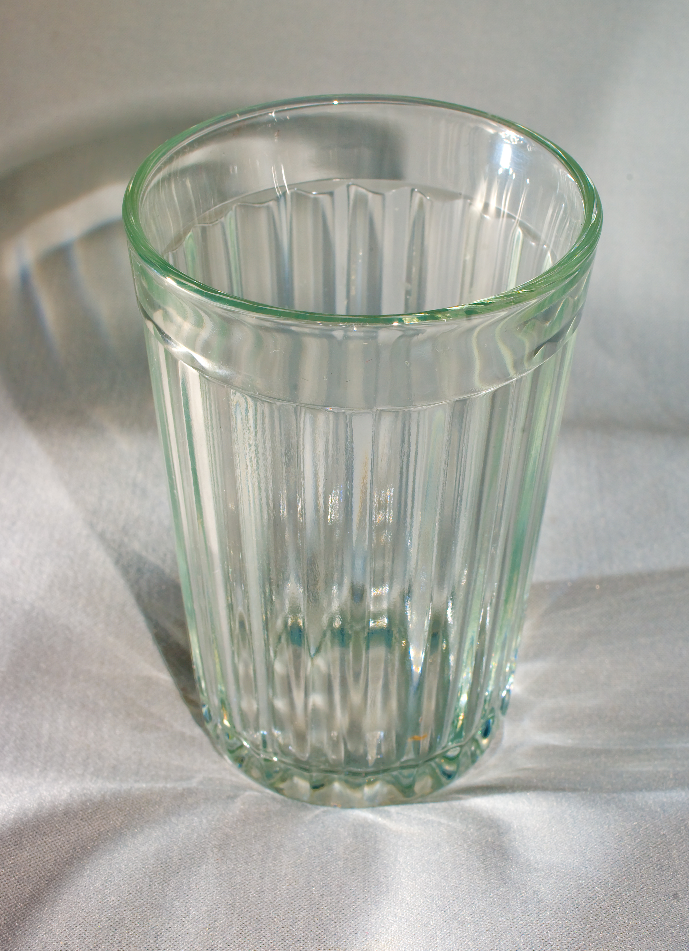 Glass (russian:Granyoniy Stakan), used for tea, kompot, vodka...